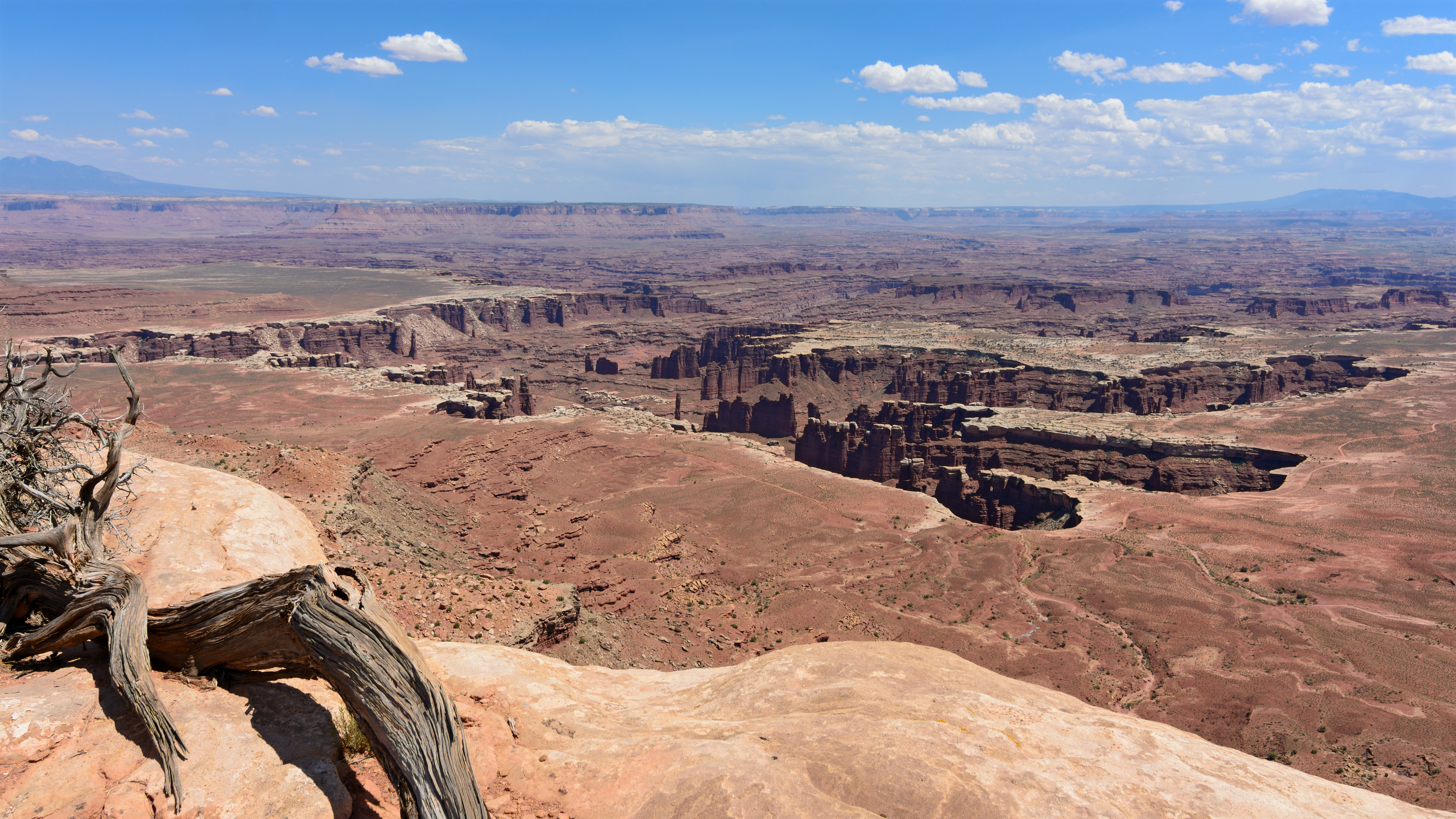 A view from Grand View Point Overlook toward Monument Basin, Island in the Sky district in Canyonlands National Park, Utah, United States.